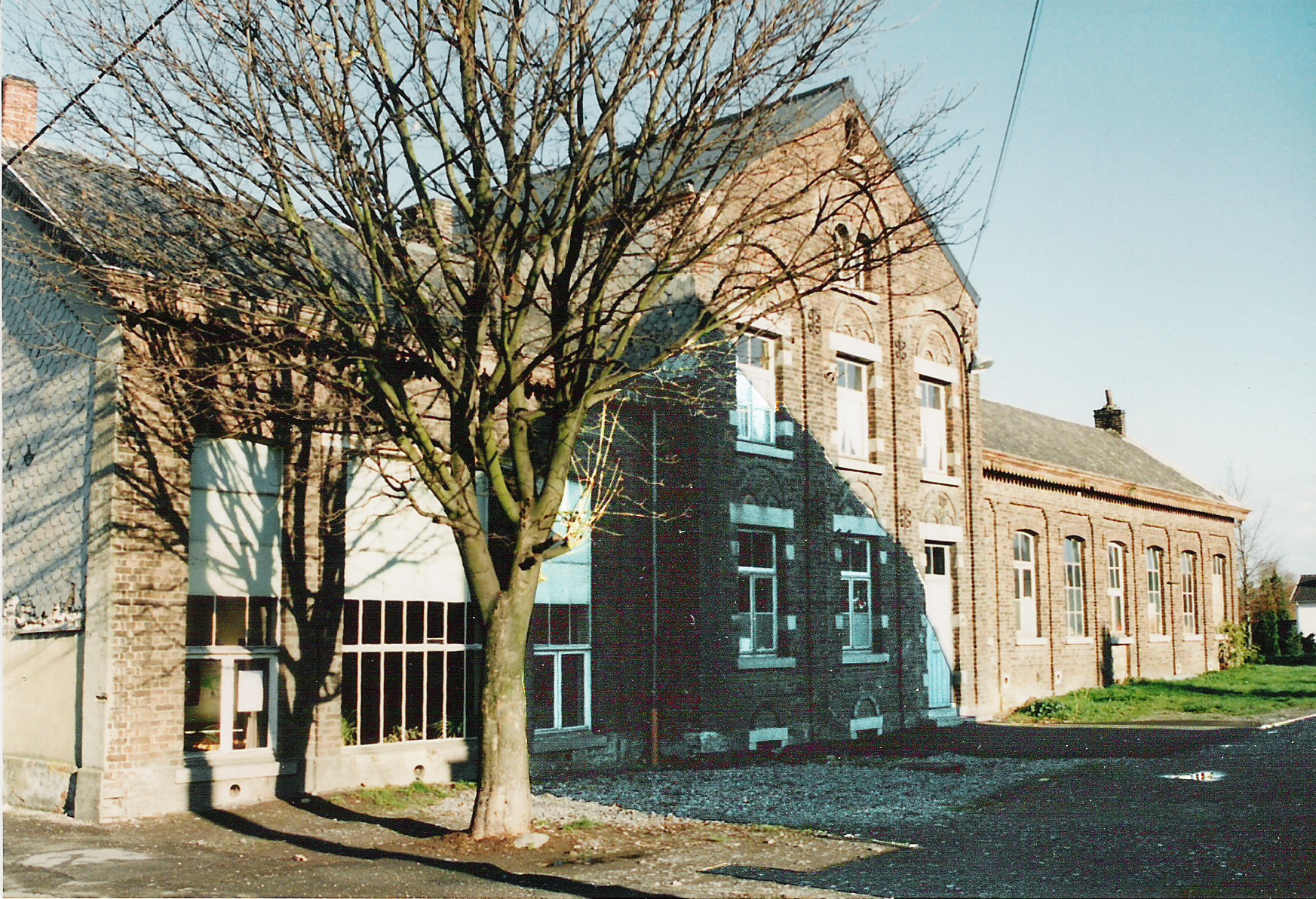 "Old School" of the Baroness de Potesta, Hermalle-sous-Huy, Belgium